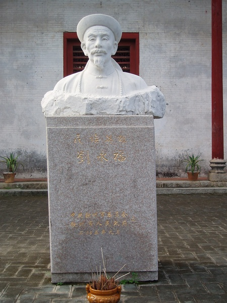 Liu Yongfu'sstatuary.刘永福雕像。